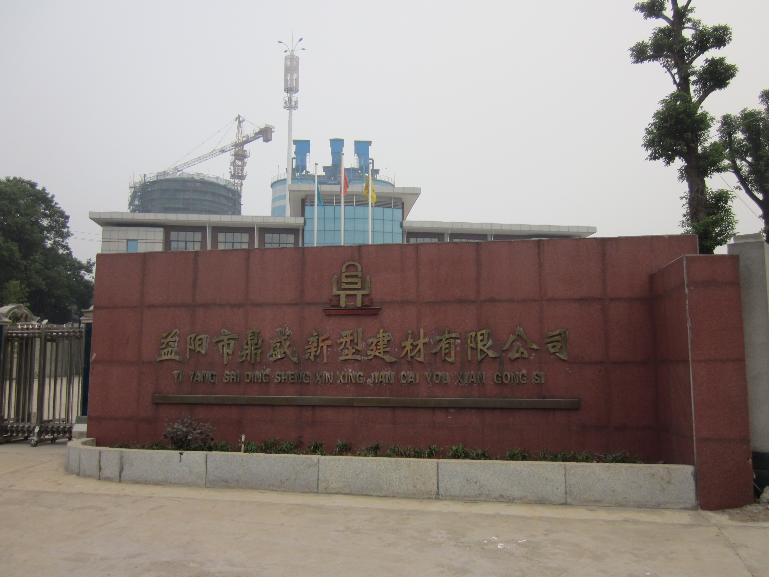 Huishangang Town (simplified